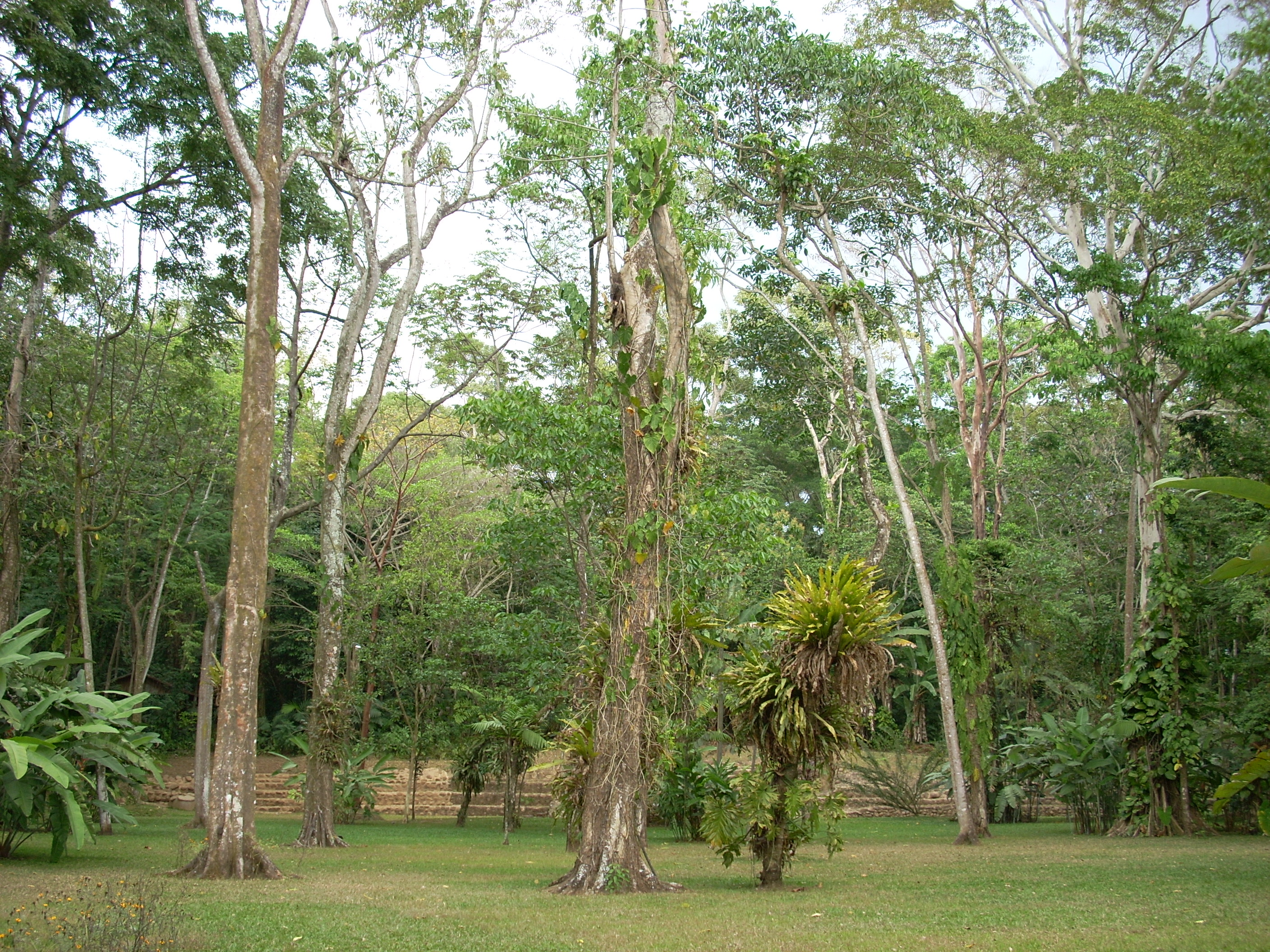 View of Takalik Abaj.